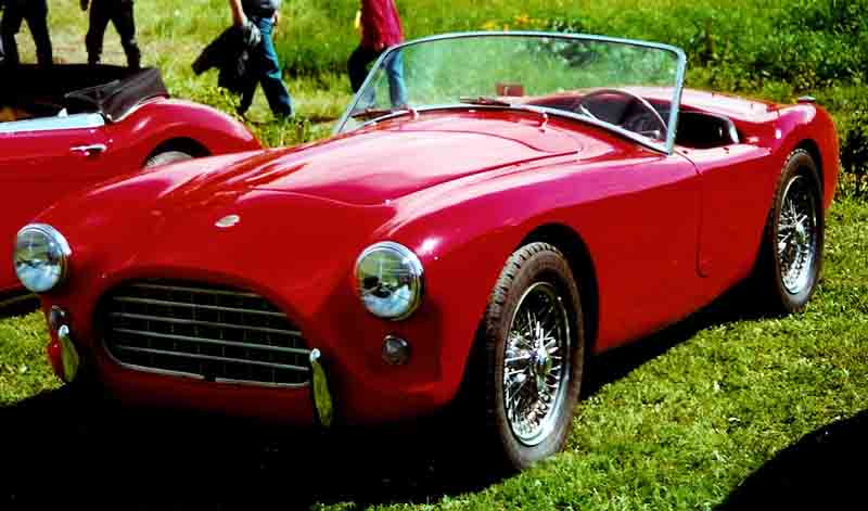 A.C. Bristol (note: Bristol badge under AC Emblem on Cowl) 2-Seater Sports